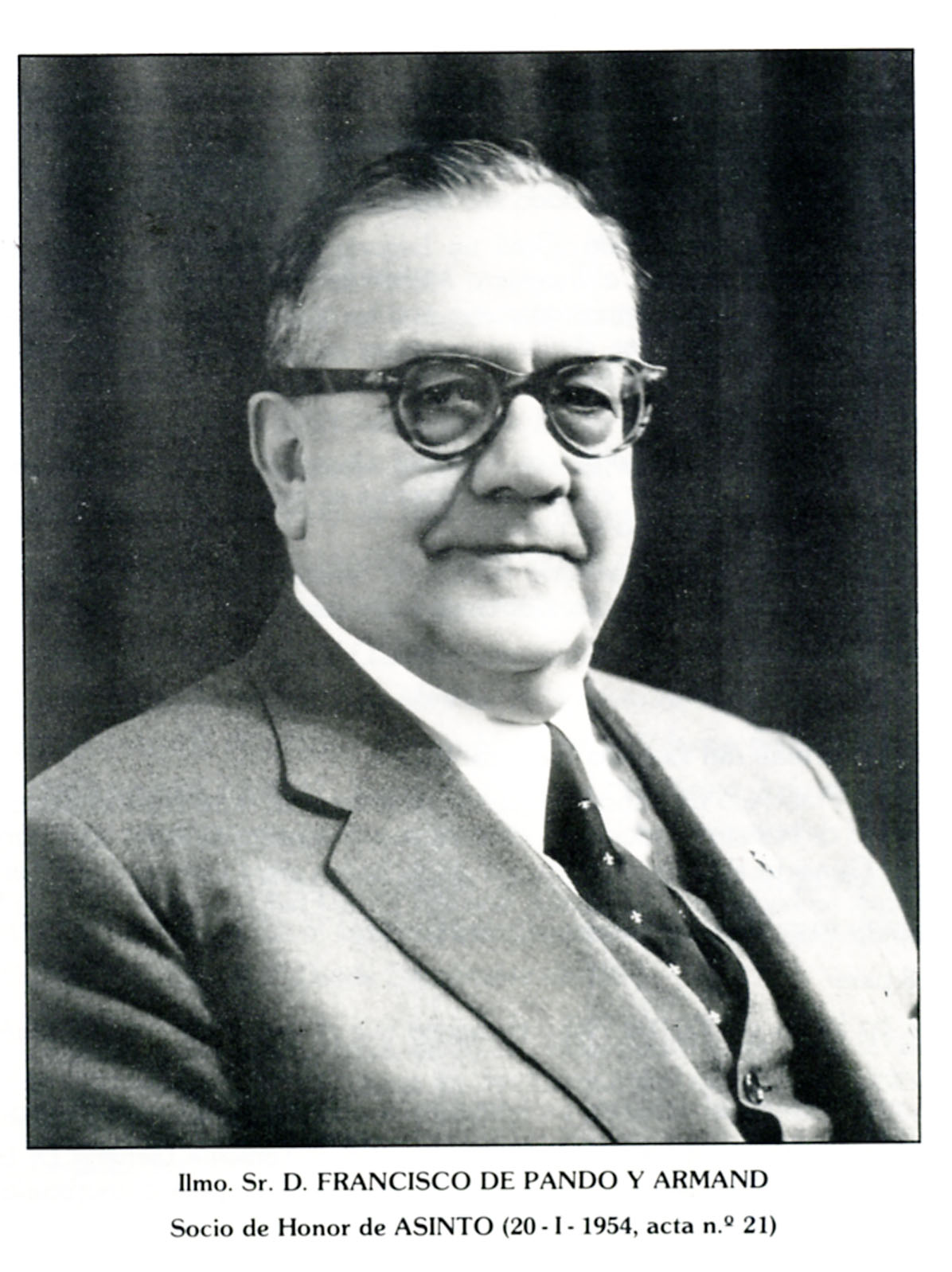 Francisco de Pando y Armand, President of the National Association of Cuban Sugar Mill Owners.